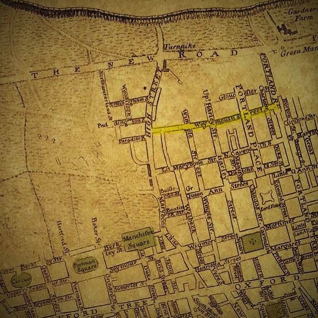 Clip from map of London, Westminster and Southwark drawn by Gottlob Liebe showing Marylebone in circa 1770. Weymouth Street (outlined yellow) had been recently laid out for development.